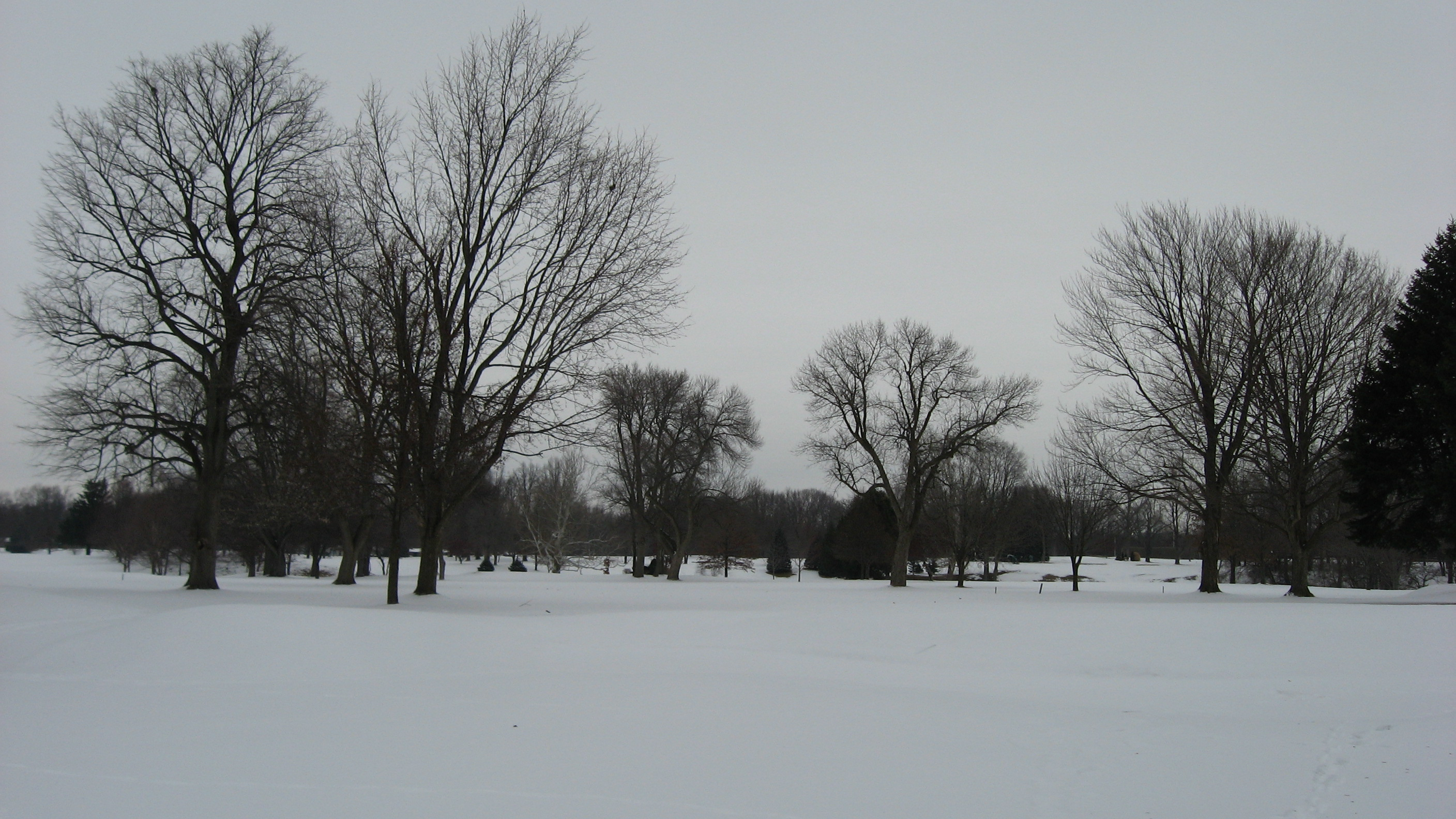 Snow-covered fairways at the Kokomo Country Club, seen looking northeast from the intersection of Park Road and West Boulevard on the southwestern side of Kokomo, Indiana, United States. The golf course is listed on the National Register of Historic Places.